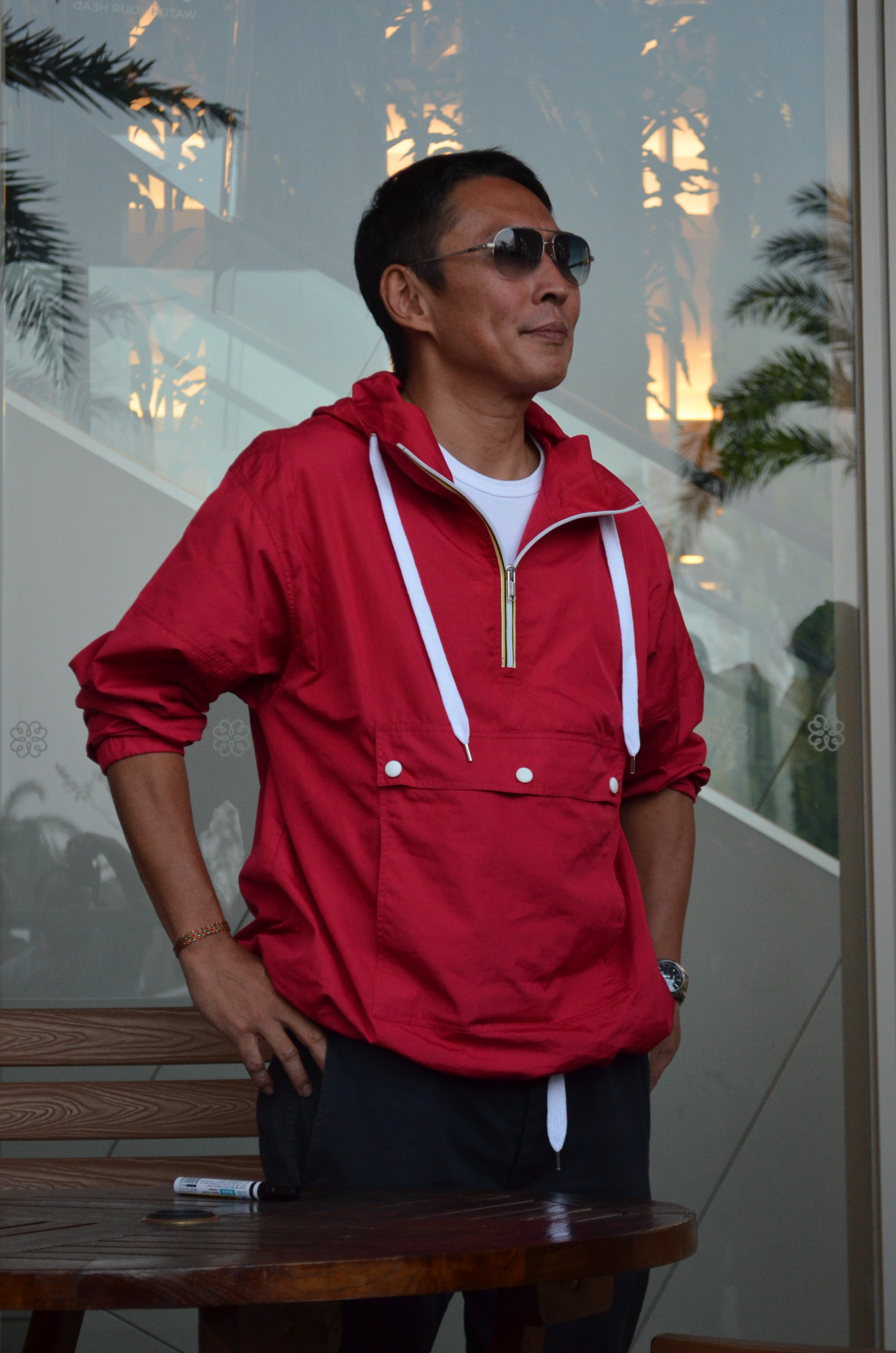 Doze Niu at Jinhu Township, Kinmen County.